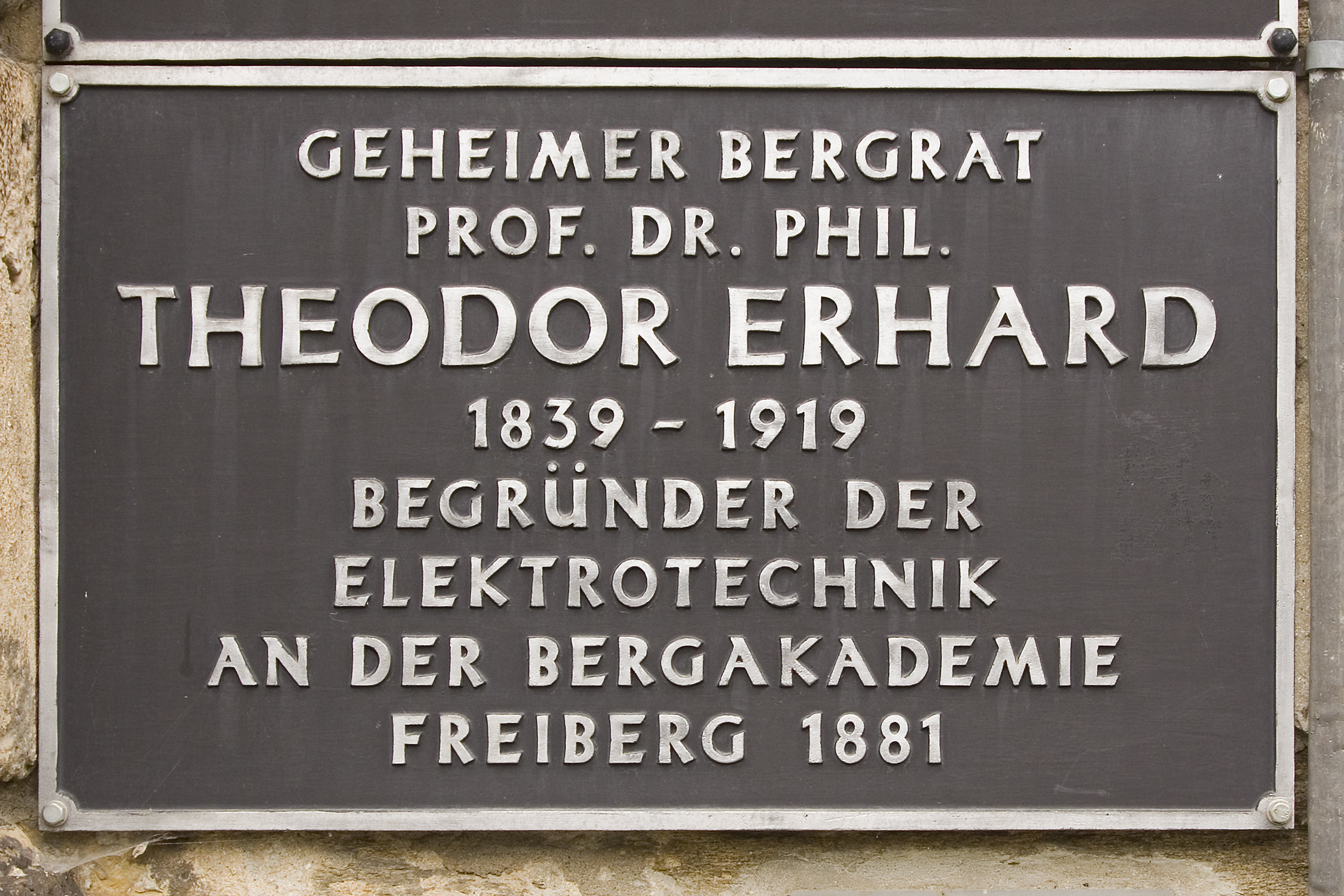 Theodor Erhard, Gedenktafel in Freiberg, Sachsen